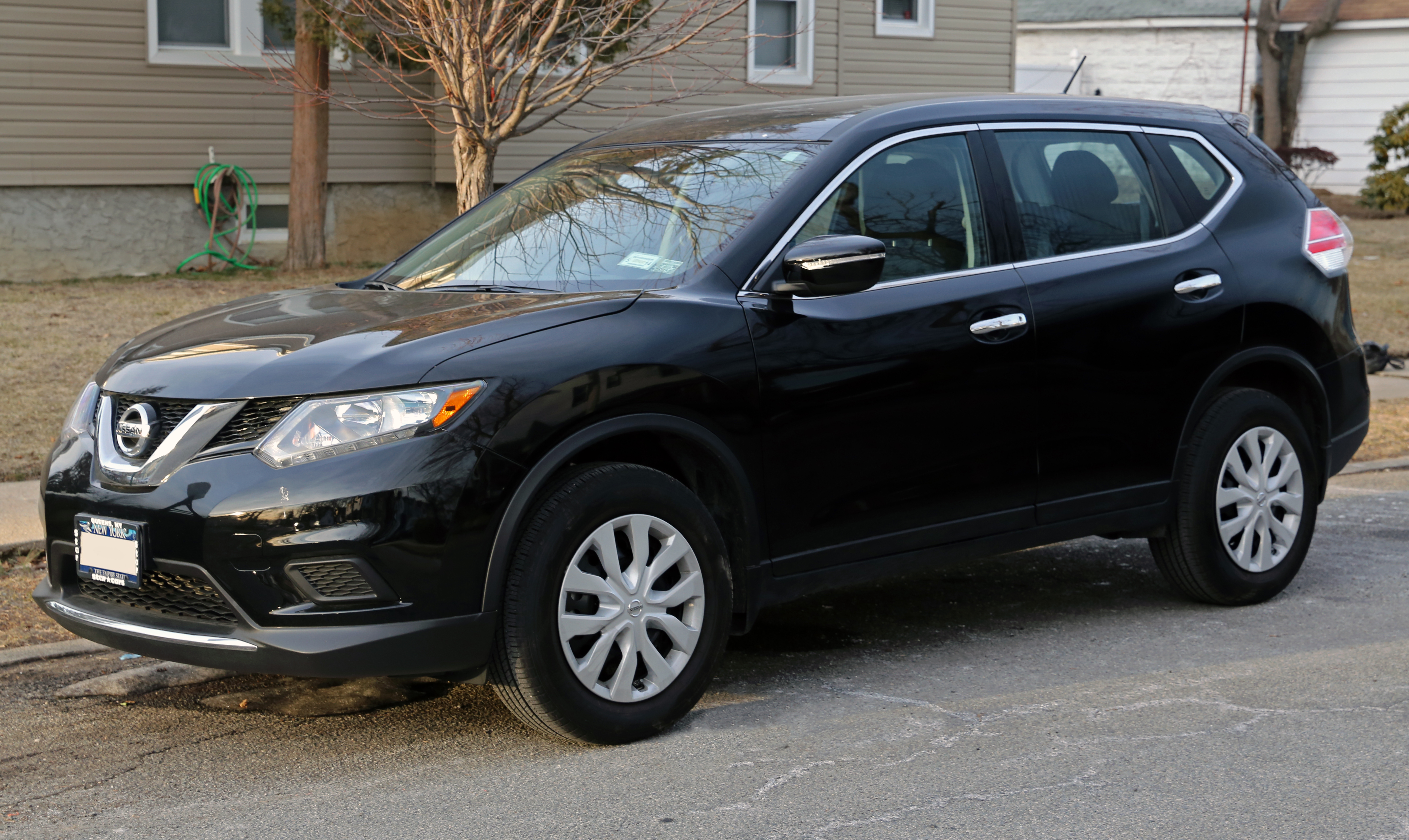 2014 Nissan Rogue S AWD (second generation), built in Smyrna, TN.